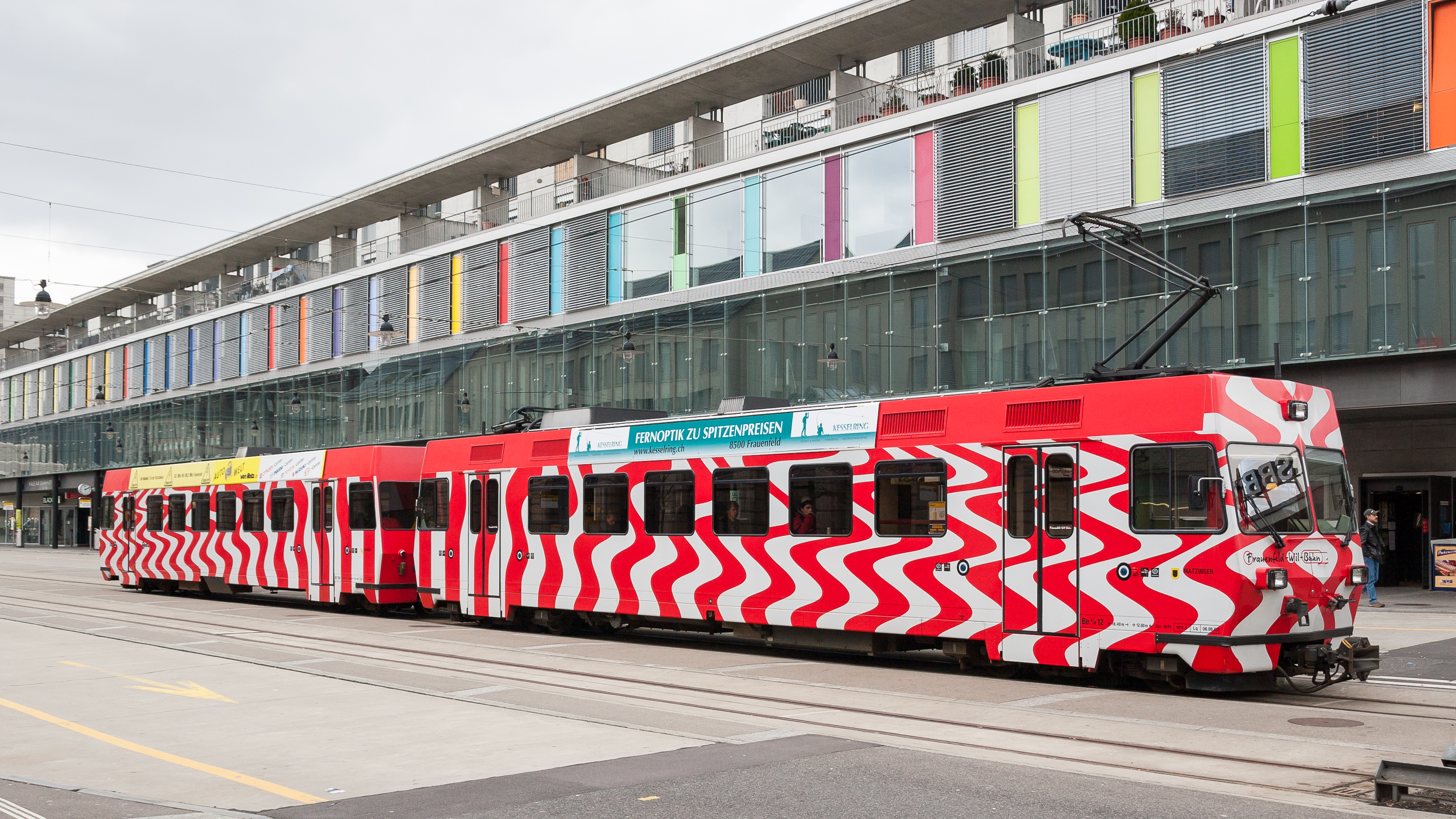 a train of Frauenfeld-Wil railway in Frauenfeld (2009)